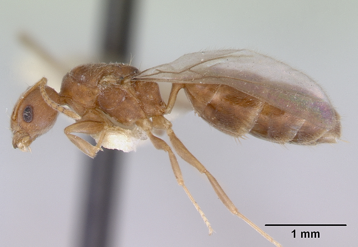 Profile view of ant Aneuretus simoni specimen casent0172259.